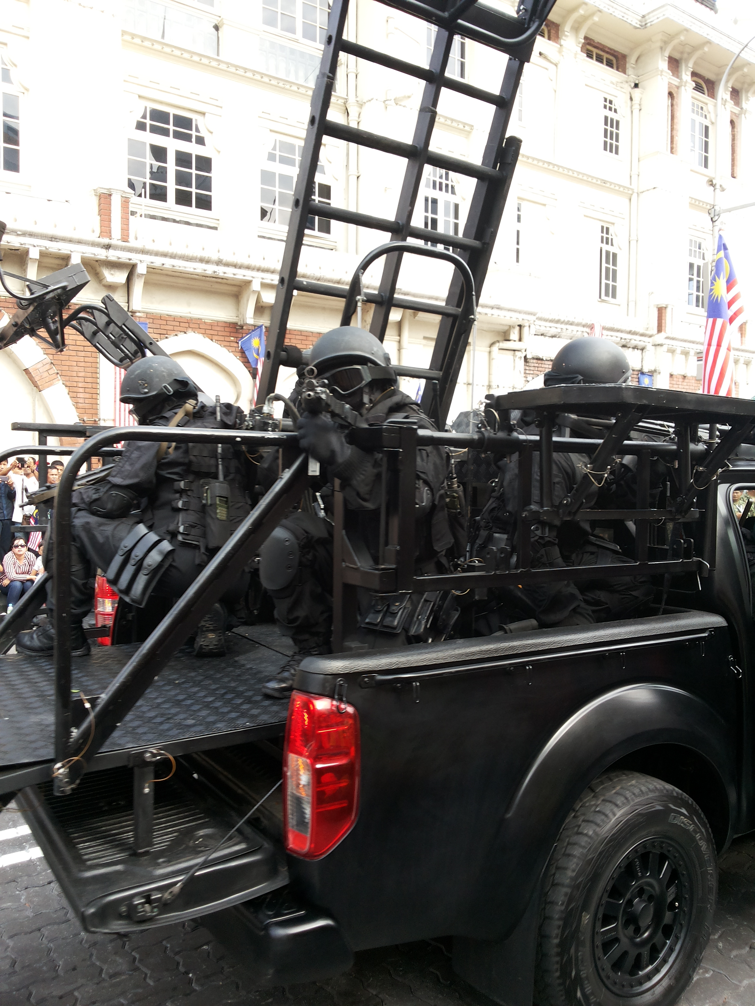 11th RGK in the Rapid Intervention Vehicle on parade at Merdeka Square, Kuala Lumpur during the National Day of 2014.